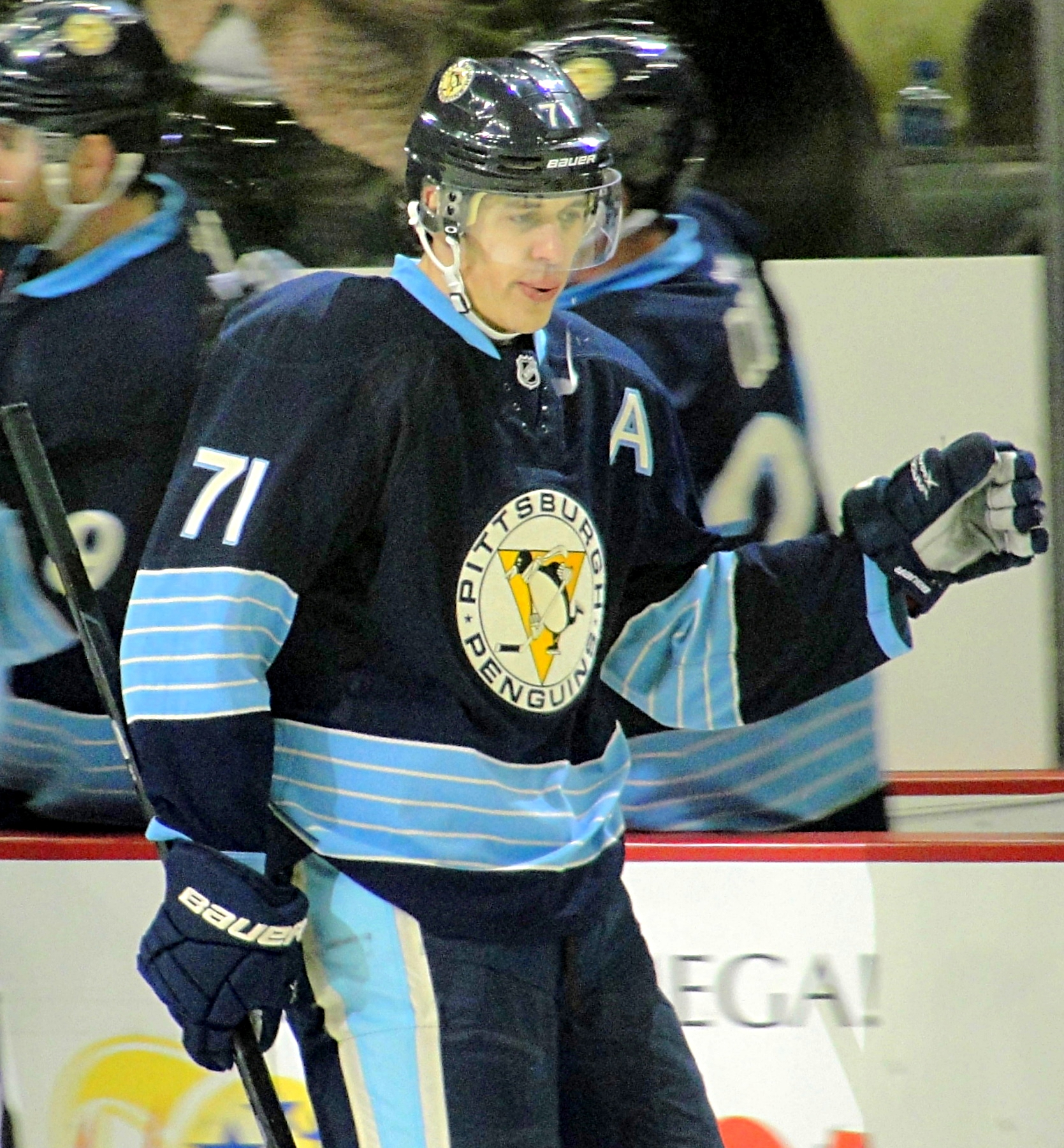 Pittsburgh Penguins center Evgeni Malkin celebrates his second goal of the game during the second period against the Tampa Bay Lightning, February 12, 2012 at Consol Energy Center in Pittsburgh, PA.